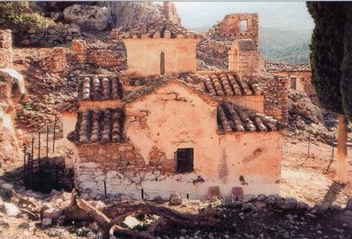 Old monastery of Prodromos in Desfina, Fokida, Greece